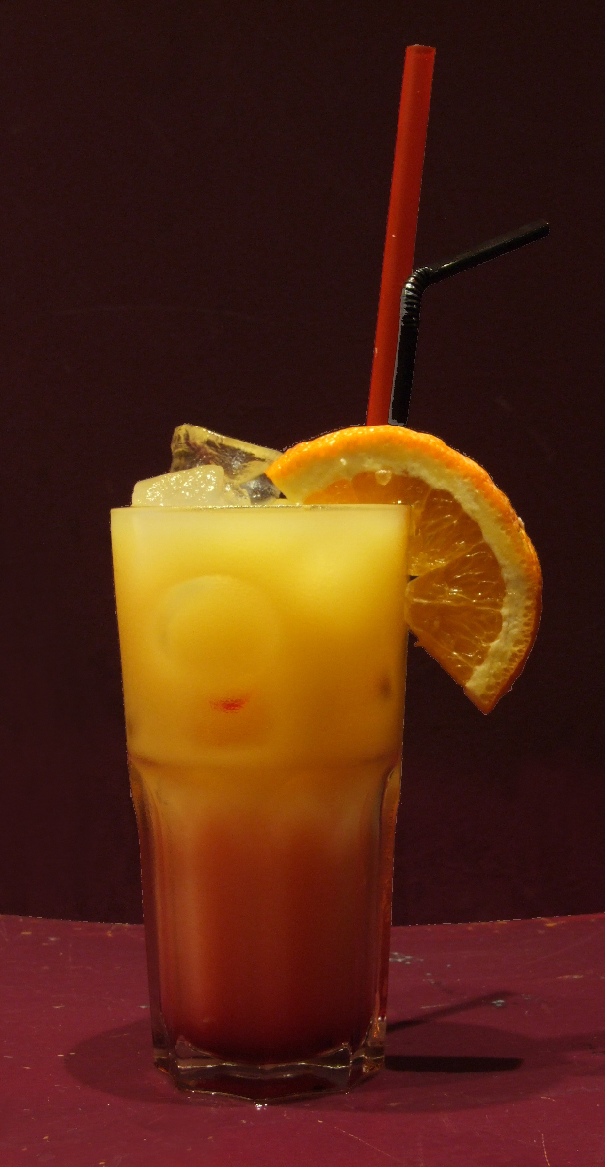 Tequila Sunrise